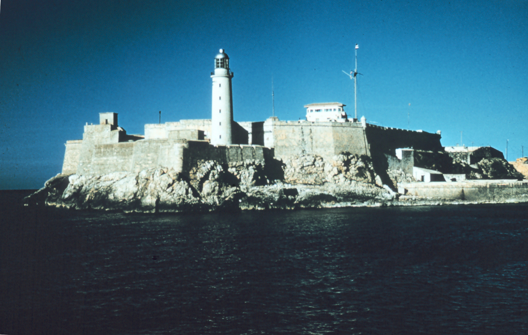 El Moro, the lighthouse and storm warning mast at the entrance to Havana.